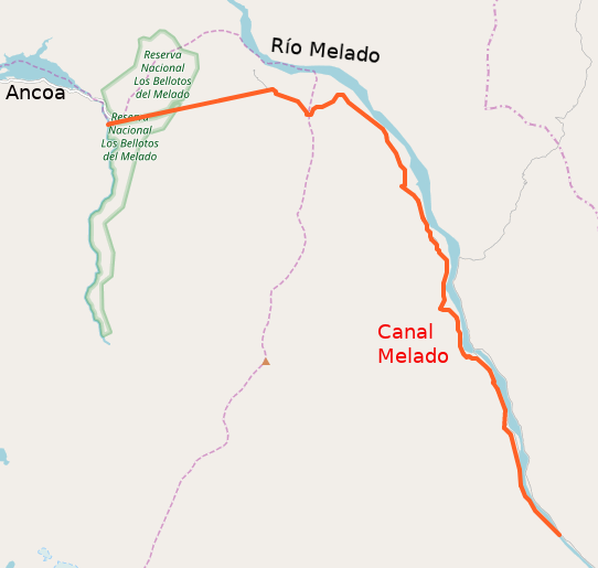 El canal artificial de regadío Melado deriva sus aguas desde el río Melado, las lleva casi paralelas hasta que vira hacia el oeste por un tunel que también atraviesa la reserva natural "Los bellotos del Melado" para desaguar en el embalse Ancoa.